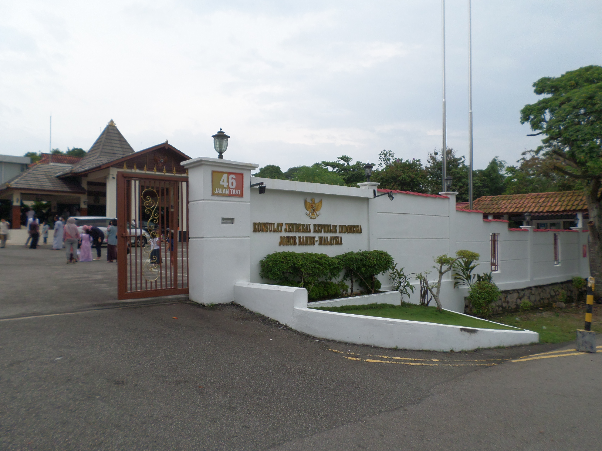 Consulate-General of the Republic of Indonesia in Johor Bahru, Johor Bahru, Johor, Malaysia